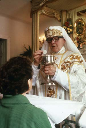 bp. Maria Dilekta Rasztawicka